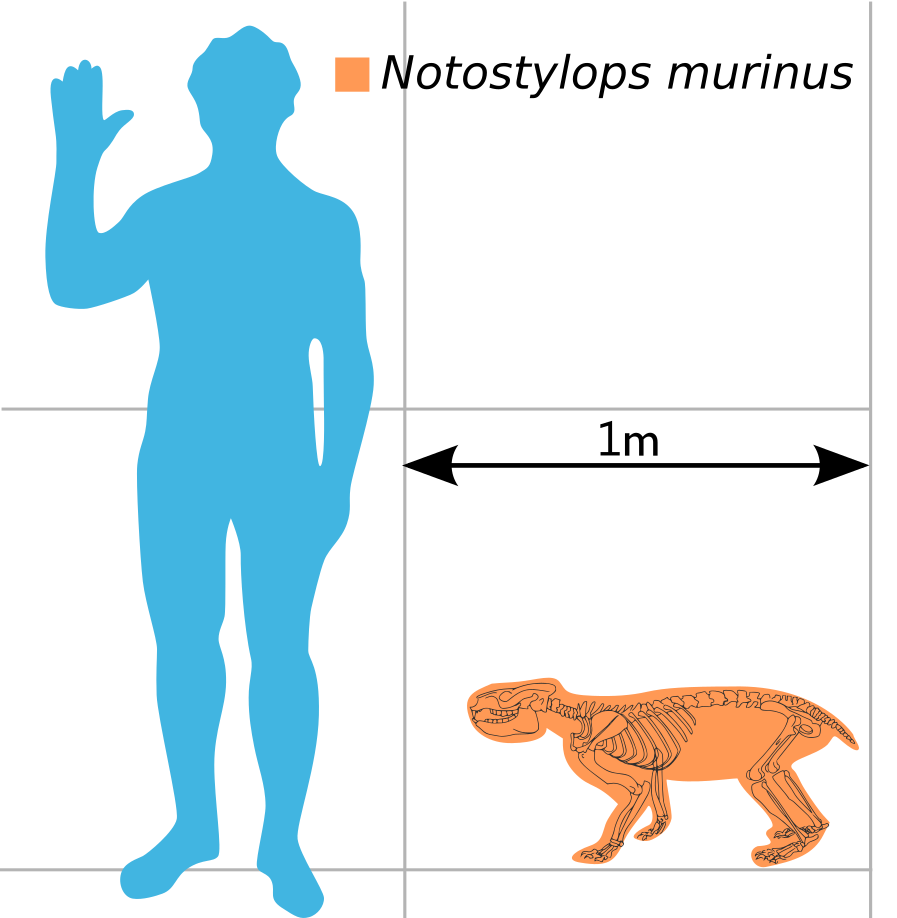 Notostylops murinus scale